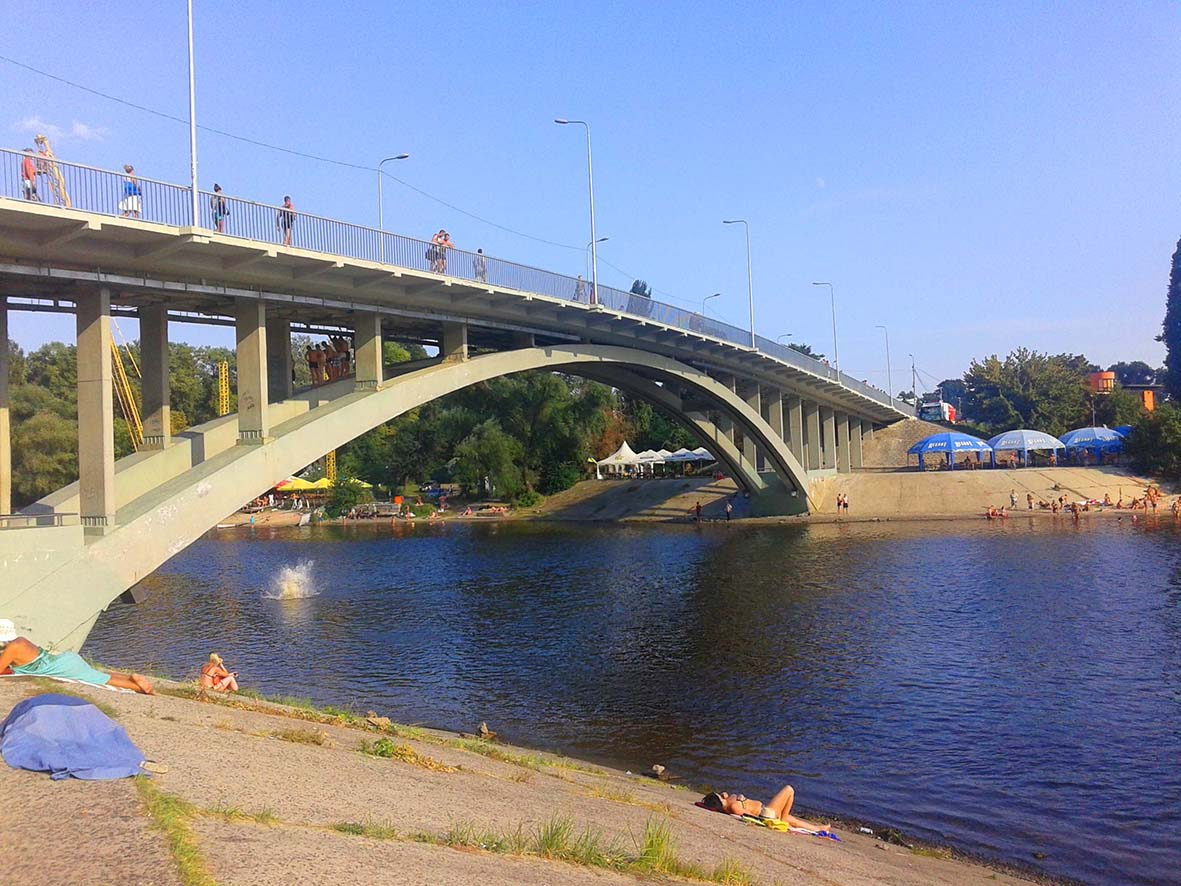 The Venice pedestrian bridge over the Venice channel in Kiev, Ukraine (1966).